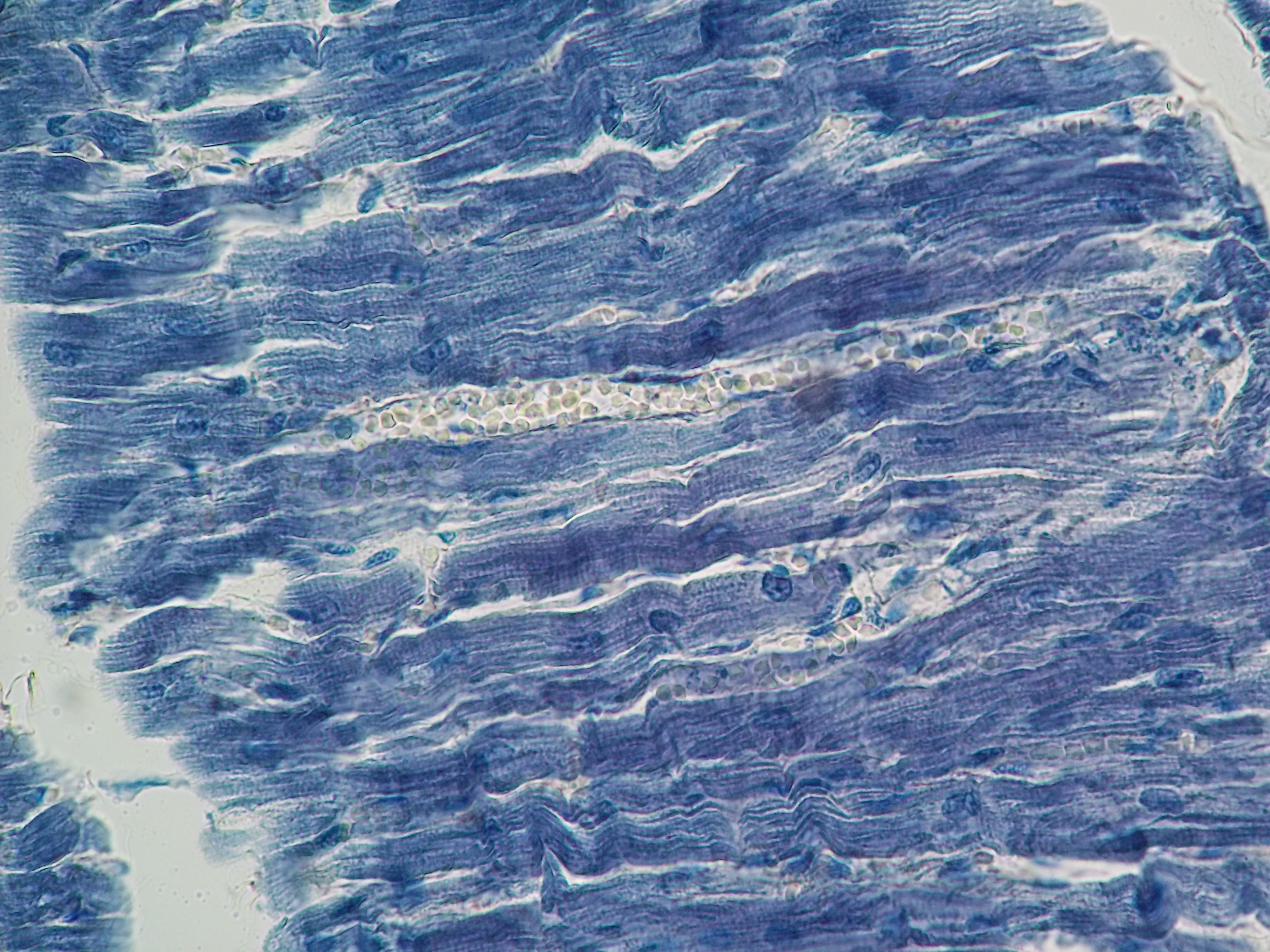 Cardiac muscle, iron hematoxilin;400X